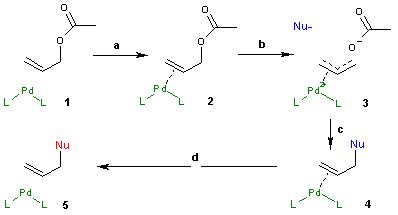 Trost AAA reaction